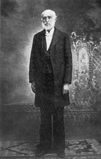 Rufus Columbus Burleson (1823-08-07 – 1901-05-14, two time President of Baylor University(1851 – 1861 and 1886 – 1897)